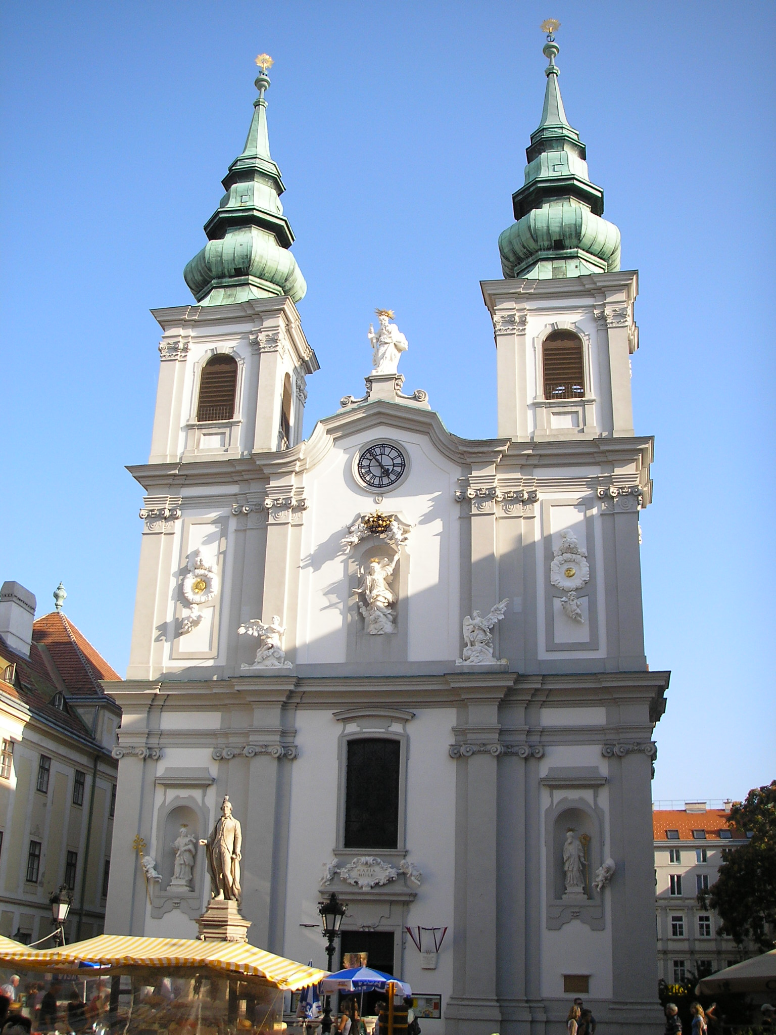 Image of the Mariahilfer Kirche (Church of Mariahilf) in Vienna.